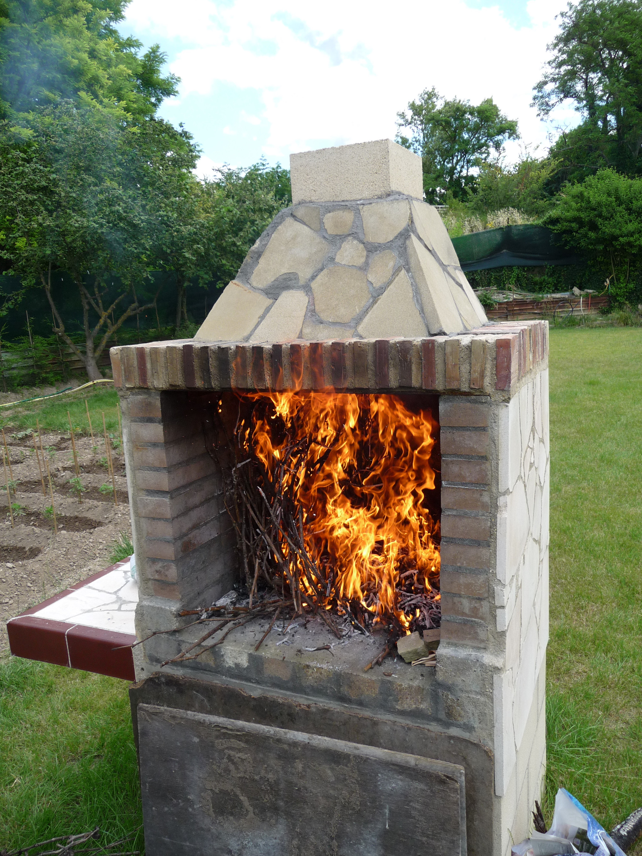 Outdoor fireplace-Outdoor barbecue